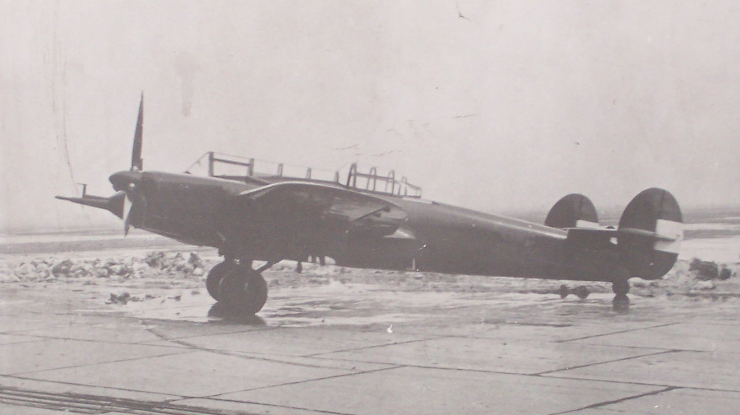 Image shows a prototype of Yugoslav light bomber and destroyer, R-313, around 1940. Prototype destroyed in April 1941 during Axis invasion of Yugoslavia. Image is cropped from original size.